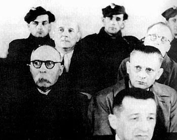 The show trial of Kazimierz Pużak and other leaders of Polish Socialist Party (PPS-WRN) 1948